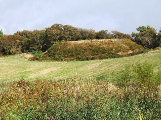 The remains of a Motte and Bailey castle, Ardwell, Stranraer